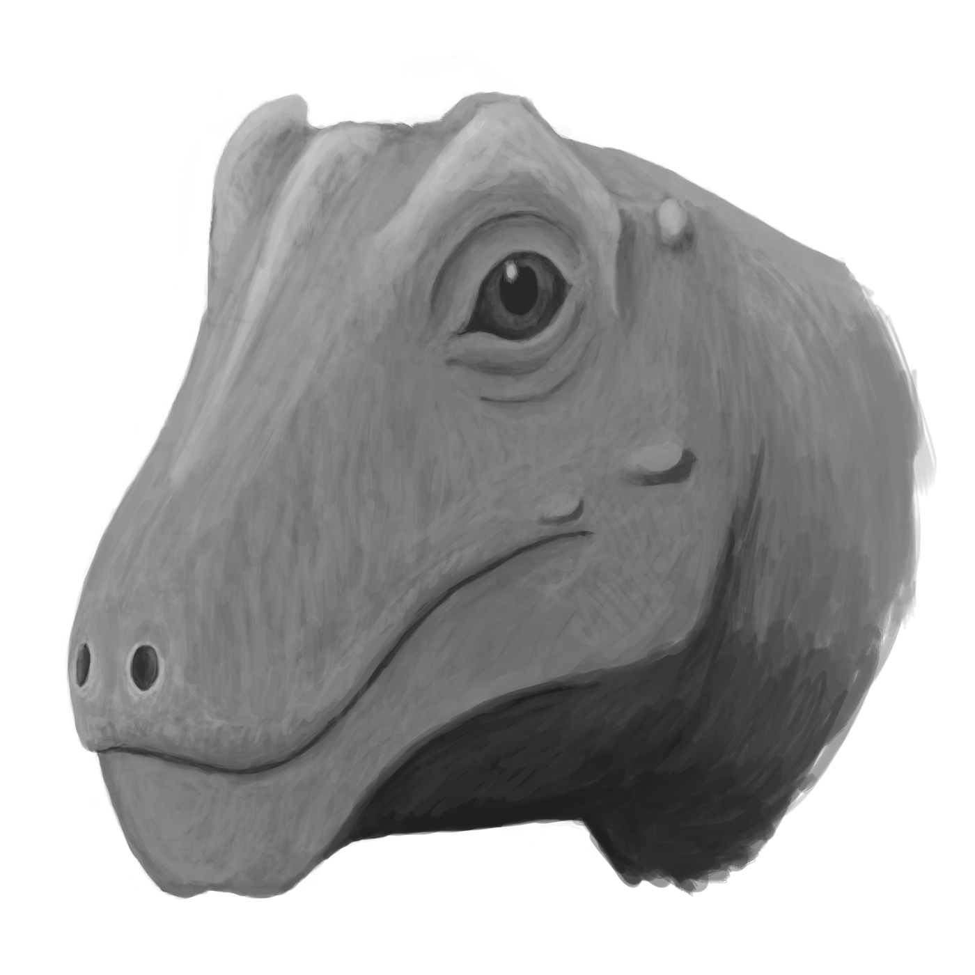 A life reconstruction of the head of the Permian therapsid Lemurosaurus pricei based on the referred specimen NMQR 1702 in three-quarter view. It is reconstructed without whiskers and with reptile-like nostrils following the conclusions of Benoit et al. (2016) in Scientific Reports, and with lips fully covering the teeth as argued by Witton (2018) for non-mammalian therapsids in his book The Paleoartist's Handbook.